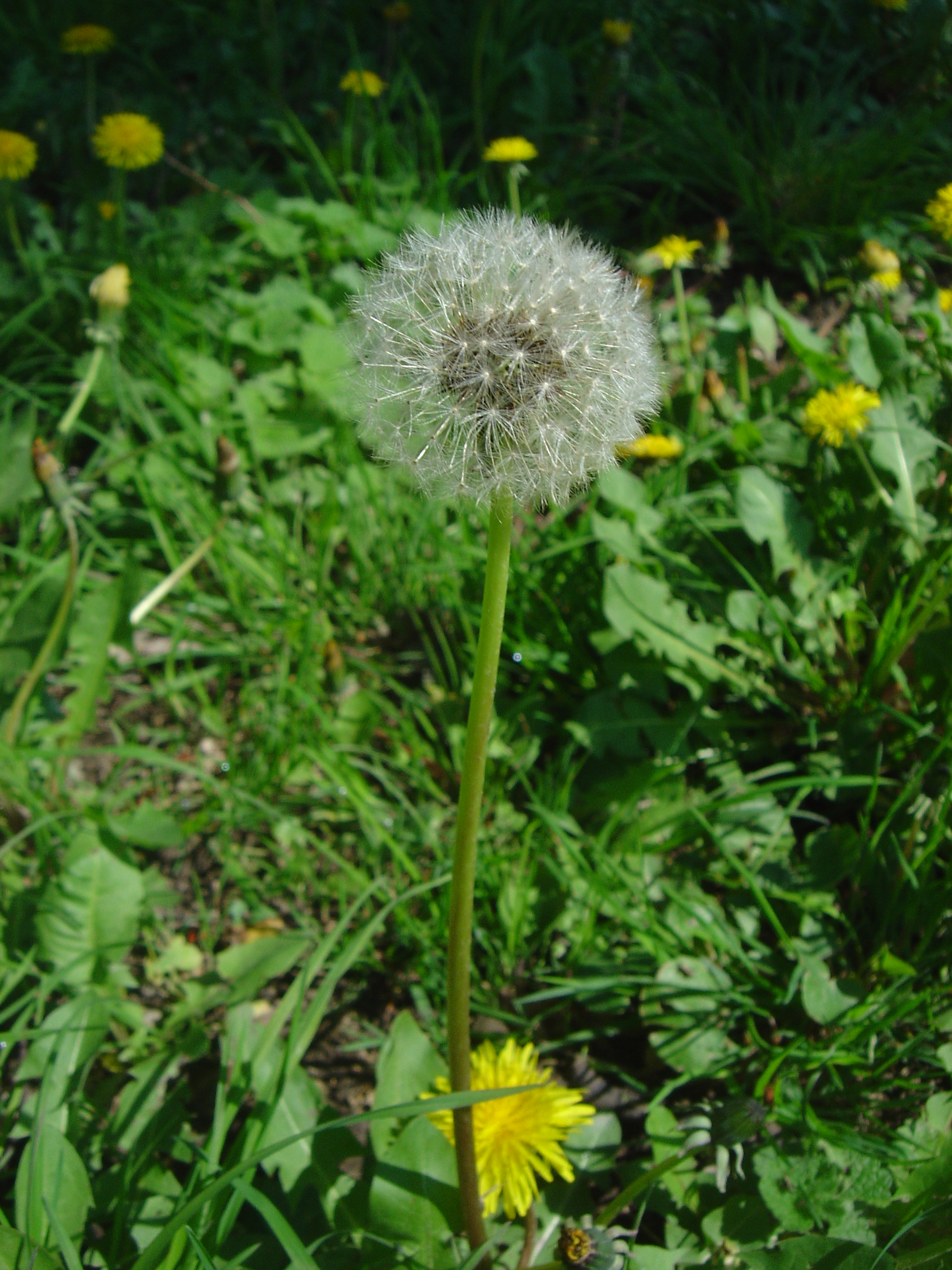 Dandelion